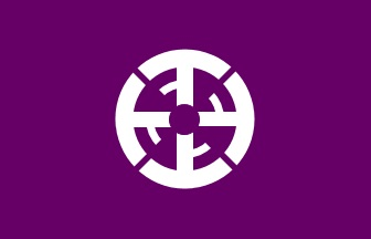 Flag of Kamisato Saitama